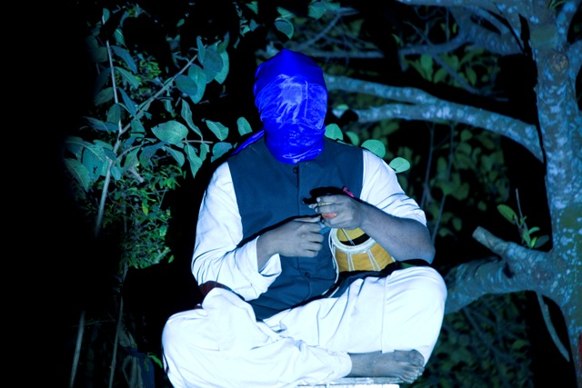 Annual Crack International Art Camp in Rahimpur, Kushtia, Bangladesh, 2010.